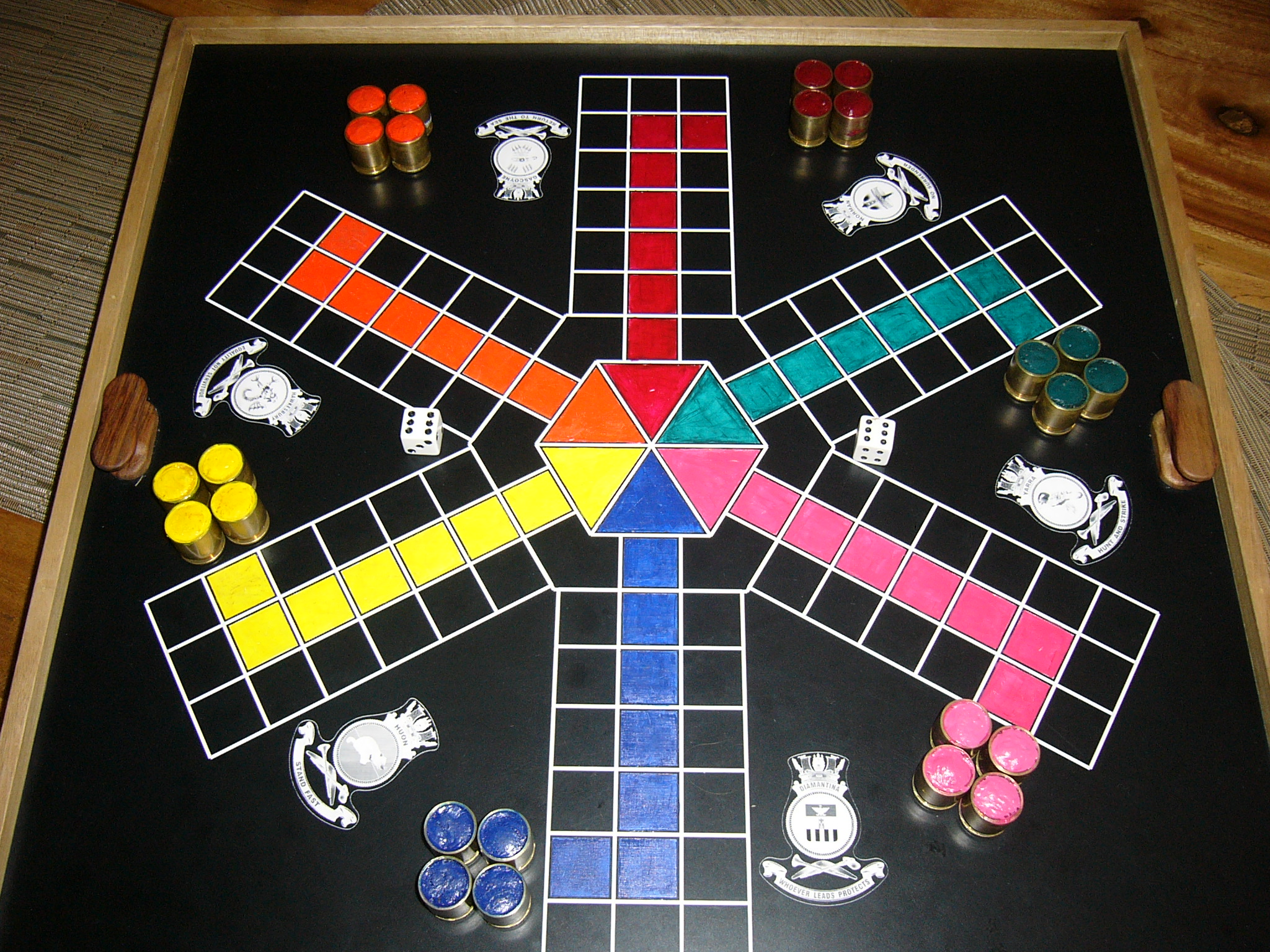 This is an example of a Six-Sided Uckers board used in the Royal Australian Navy.